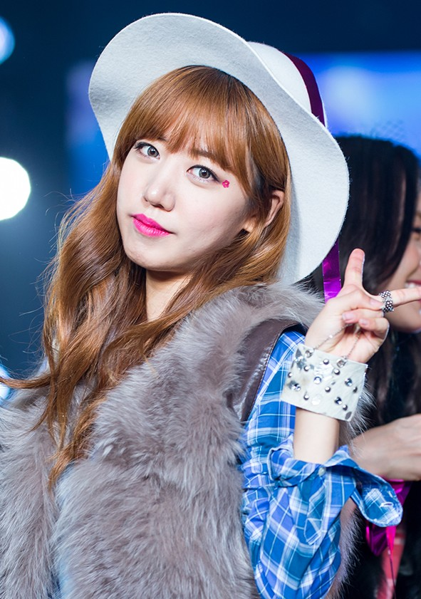 Kim Nam-joo at Girls Awards Girls Collection in Osaka, 1 November 2015